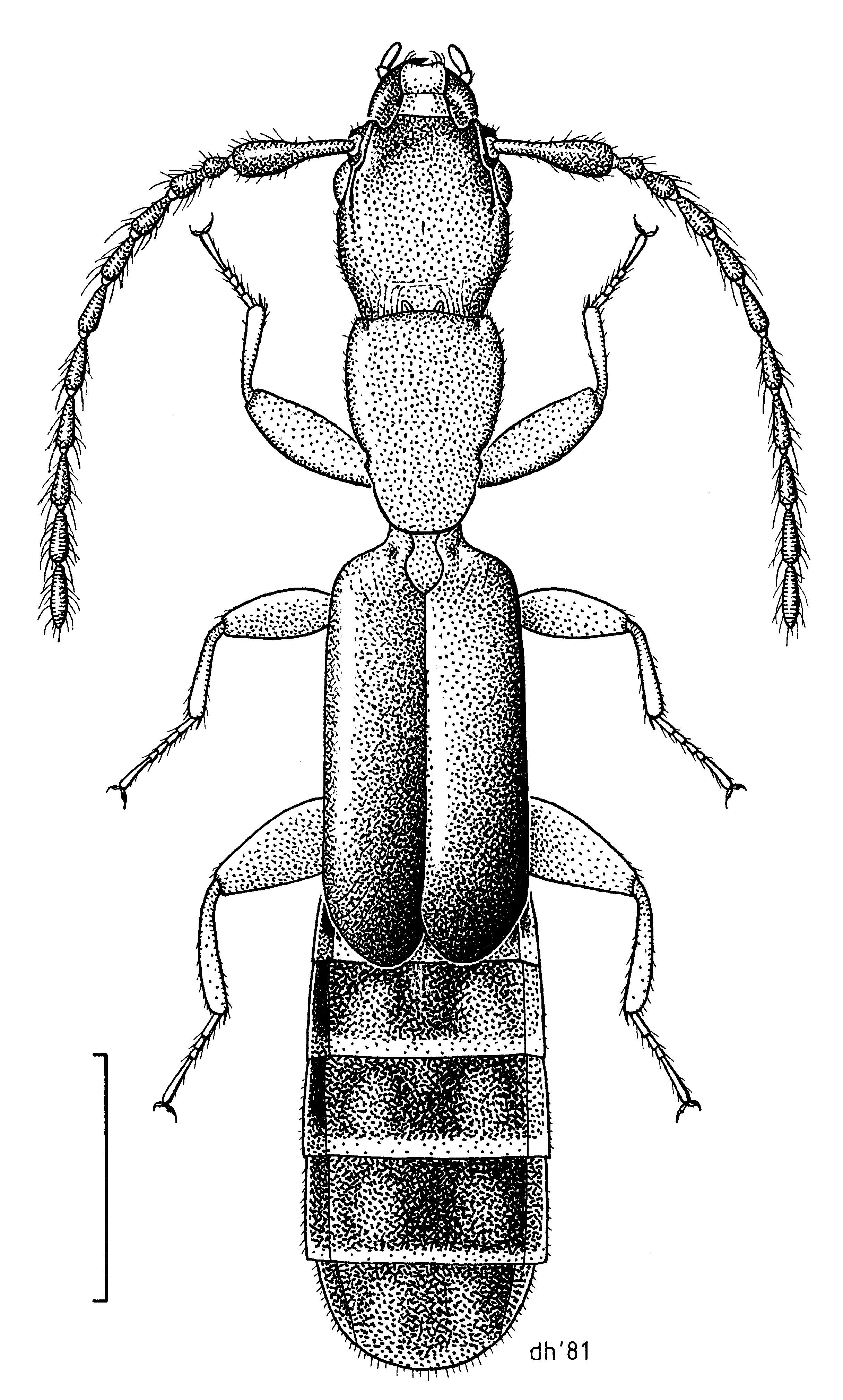 (Coleoptera: Salpingidae) Diagrypnodes wakefieldi illustrated by Des Helmore.